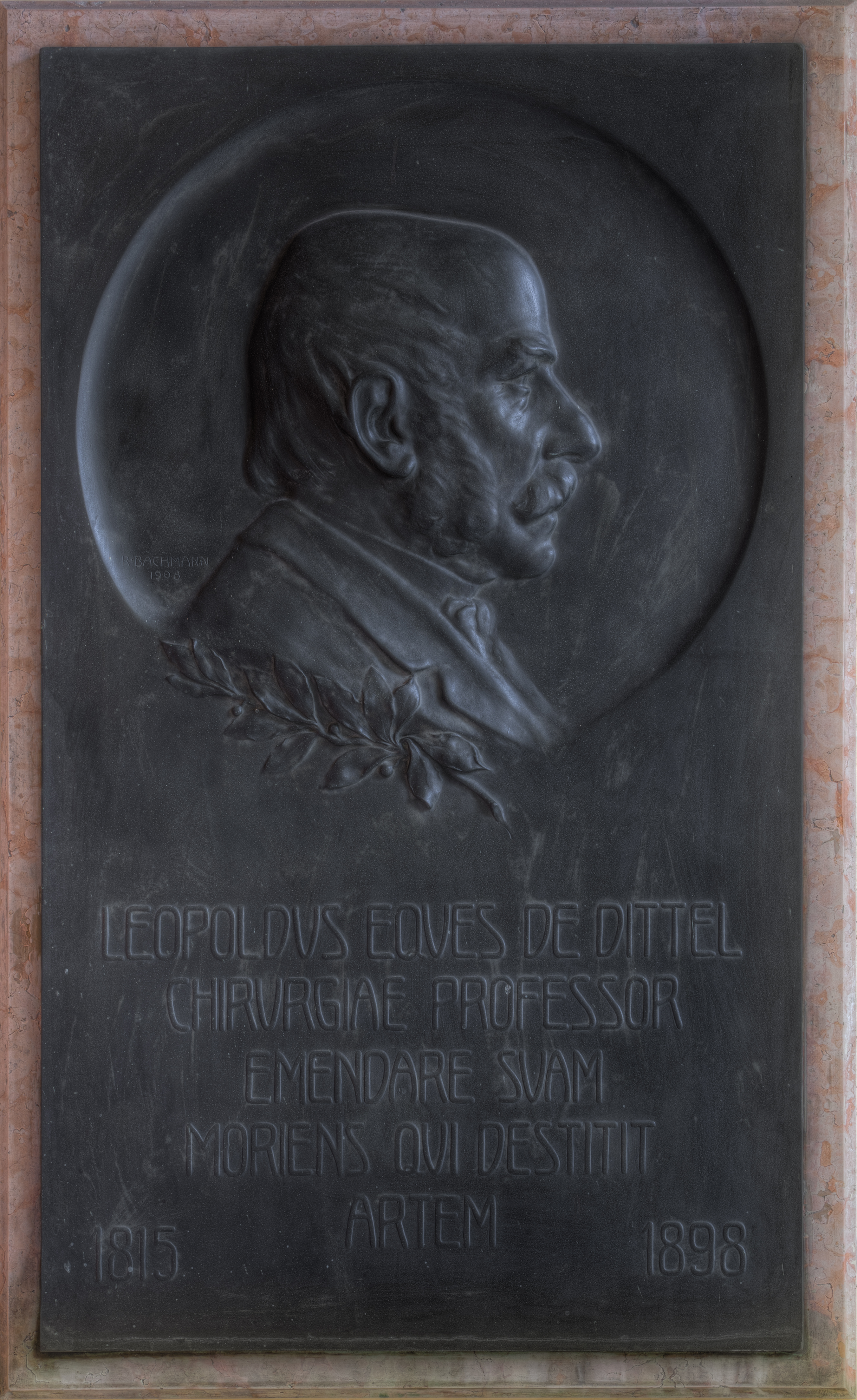 Leopold von Dittel (1815-1898), basrelief (bronze) in the Arkadenhof of the University of Vienna, (Maisel# 79). Artist: Rudolf Bachmann, unveiled 1908